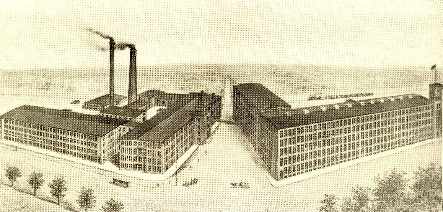 Berkshire Cotton Manufacturing Company, Adams, Massachusetts (3,750 Mason Looms, Mason Combers)